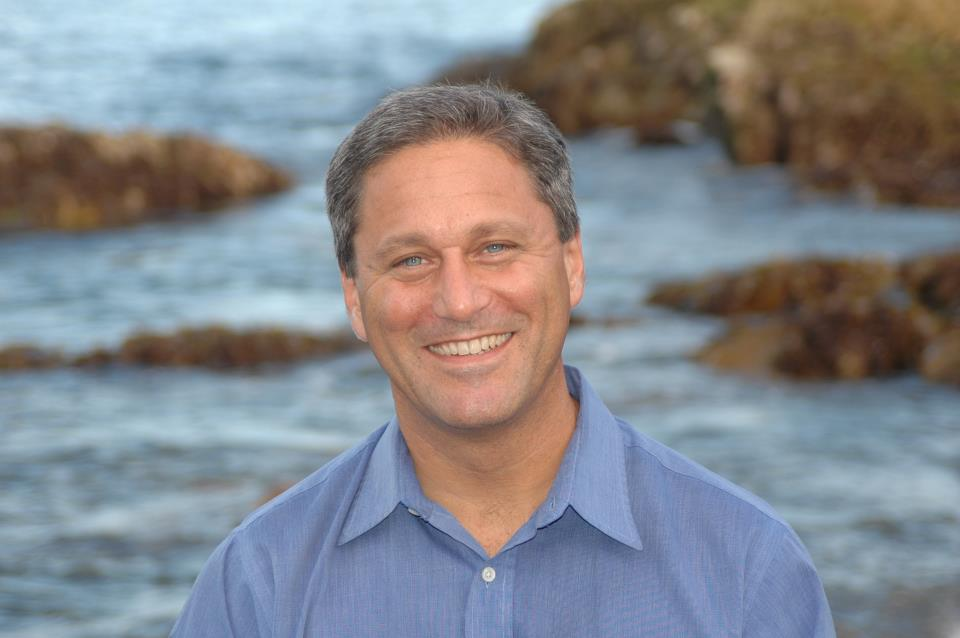 Author Photo From When America First Meet China, Published by Liveright a Division of W.W. Norton & Company